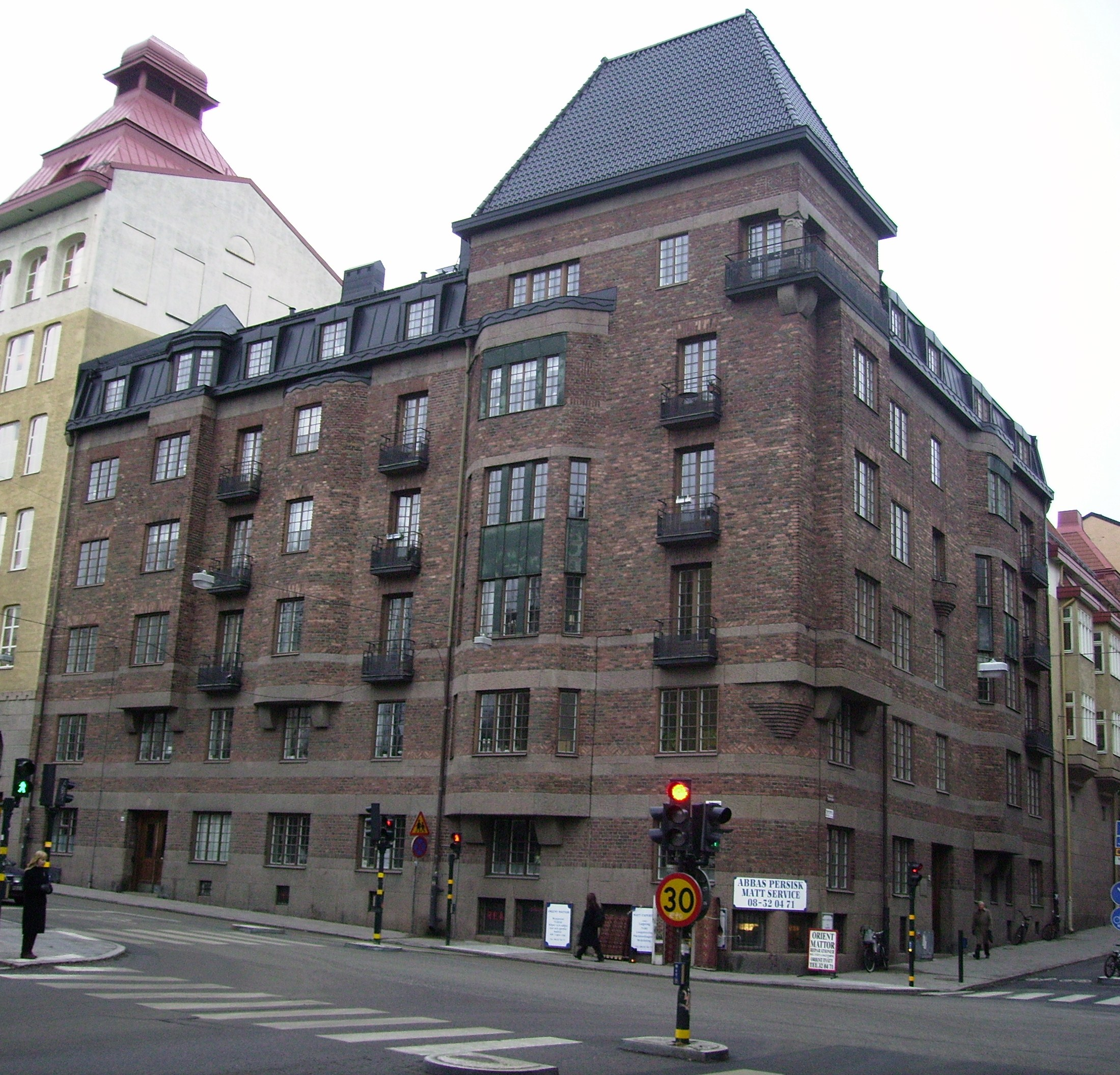 Tegnérgatan 48 in Stockholm